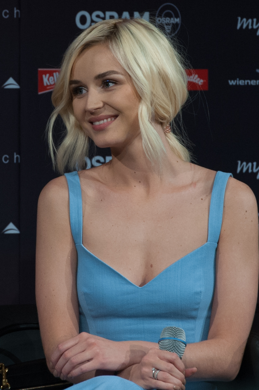 Eurovision Song Contest Vienna 2015: Polina Gagarina